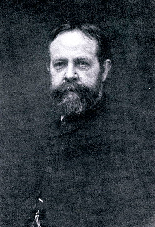 William Conant Church ca. 1900 after a photograph in Biographical Sketches of Distinguished Officers of the Army and Navy. (Courtesy of the Smithsonian Institution Libraries)